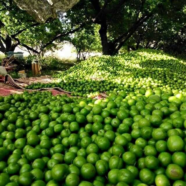 market place with fruits of Prunus vachuschtii